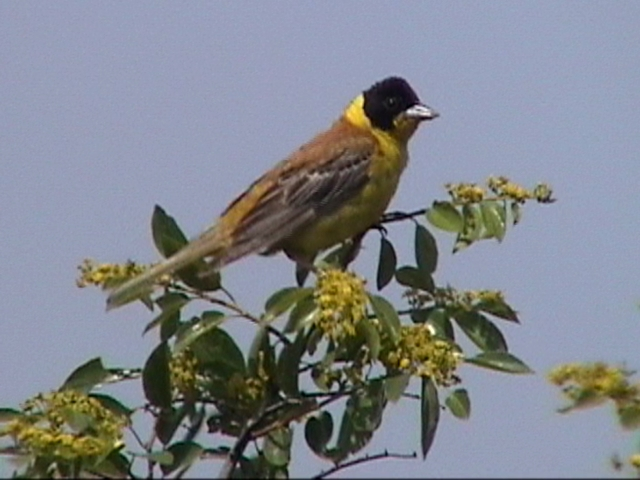 Male Black-headed Bunting, Kaliakra, Bulgaria, 2003